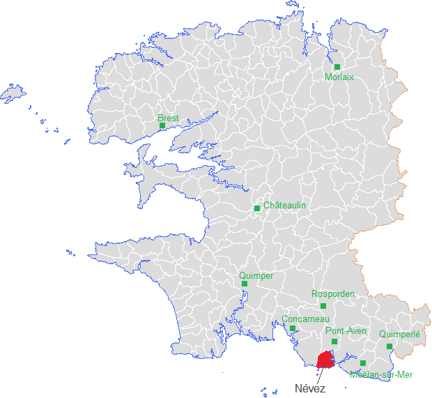 placement Névez in departement Finistère